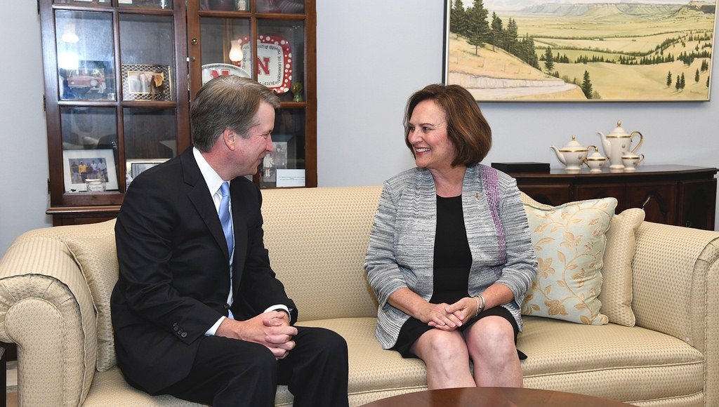 It was a pleasure sitting down with Judge Kavanaugh this afternoon. I was impressed with his talented legal mind, judicial temperament, and commitment to the rule of law.